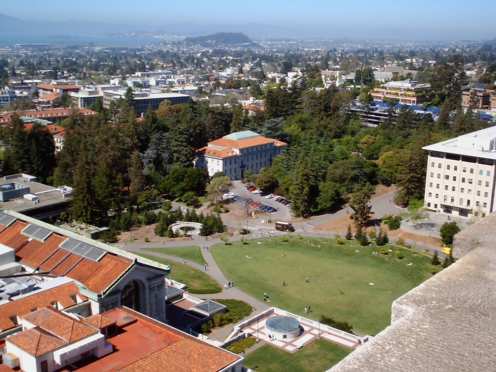 Doe Library sits in the foreground with Memorial Glade, which sits atop several stories of the underground portion of the library, in the center of this frame. In the distance is Albany Hill and the San Francisco Bay.